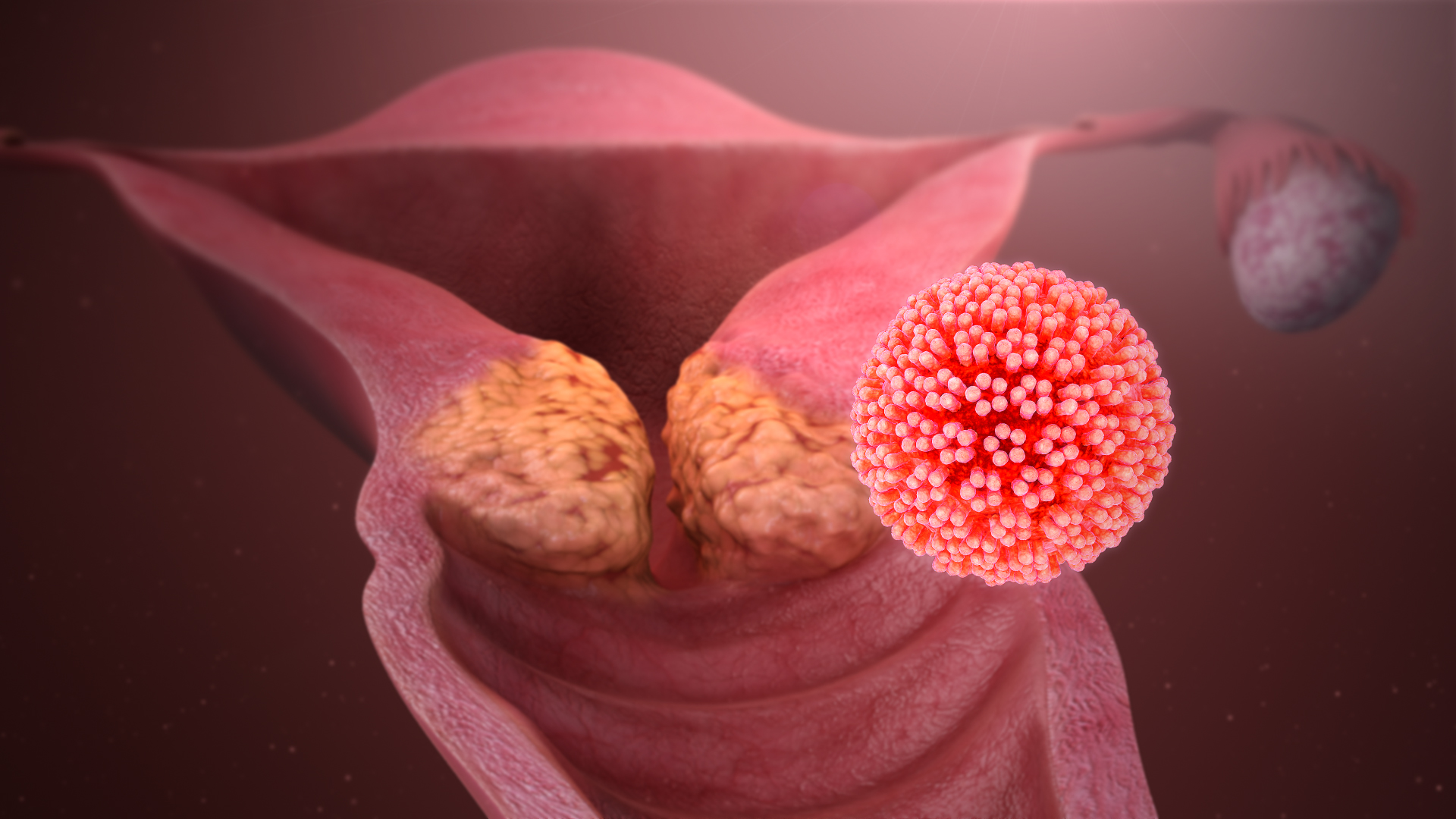 HPV is the most common virus that infects the reproductive tract and Cervical cancer is by far the most common disease caused by it.